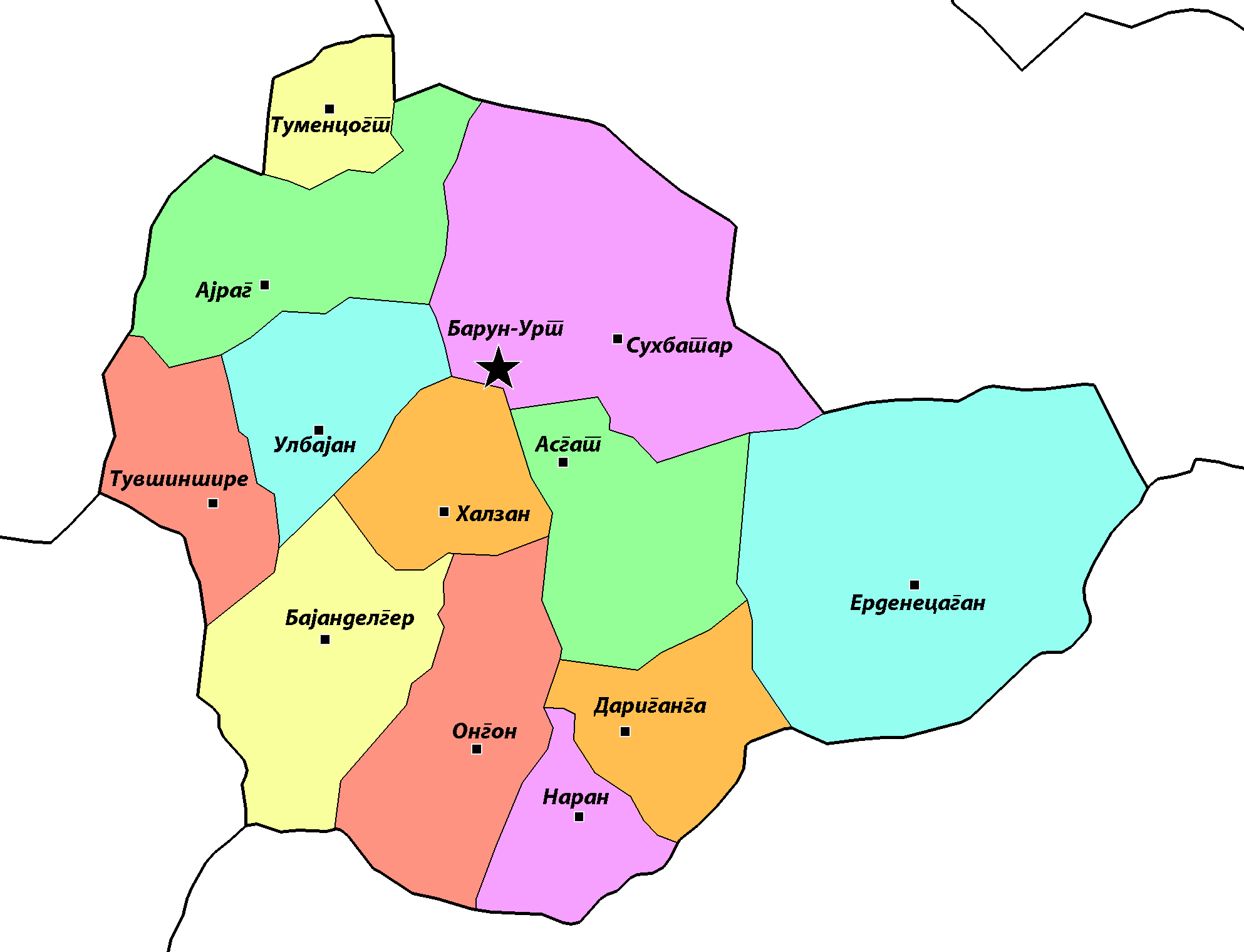 Translated map of Sukhbaatar Sum on Macedonian language